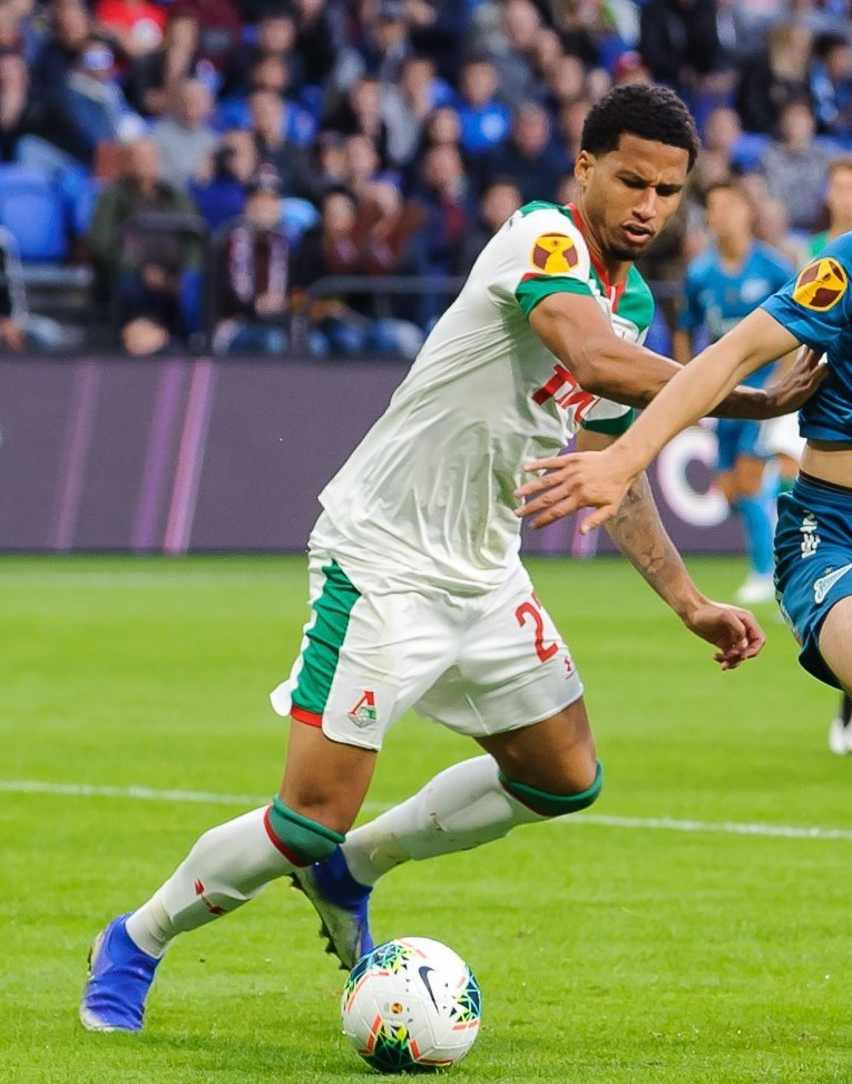 Murilo Cerqueira with FC Lokomotiv Moscow in a 2019 Russian Super Cup game against FC Zenit Saint Petersburg.